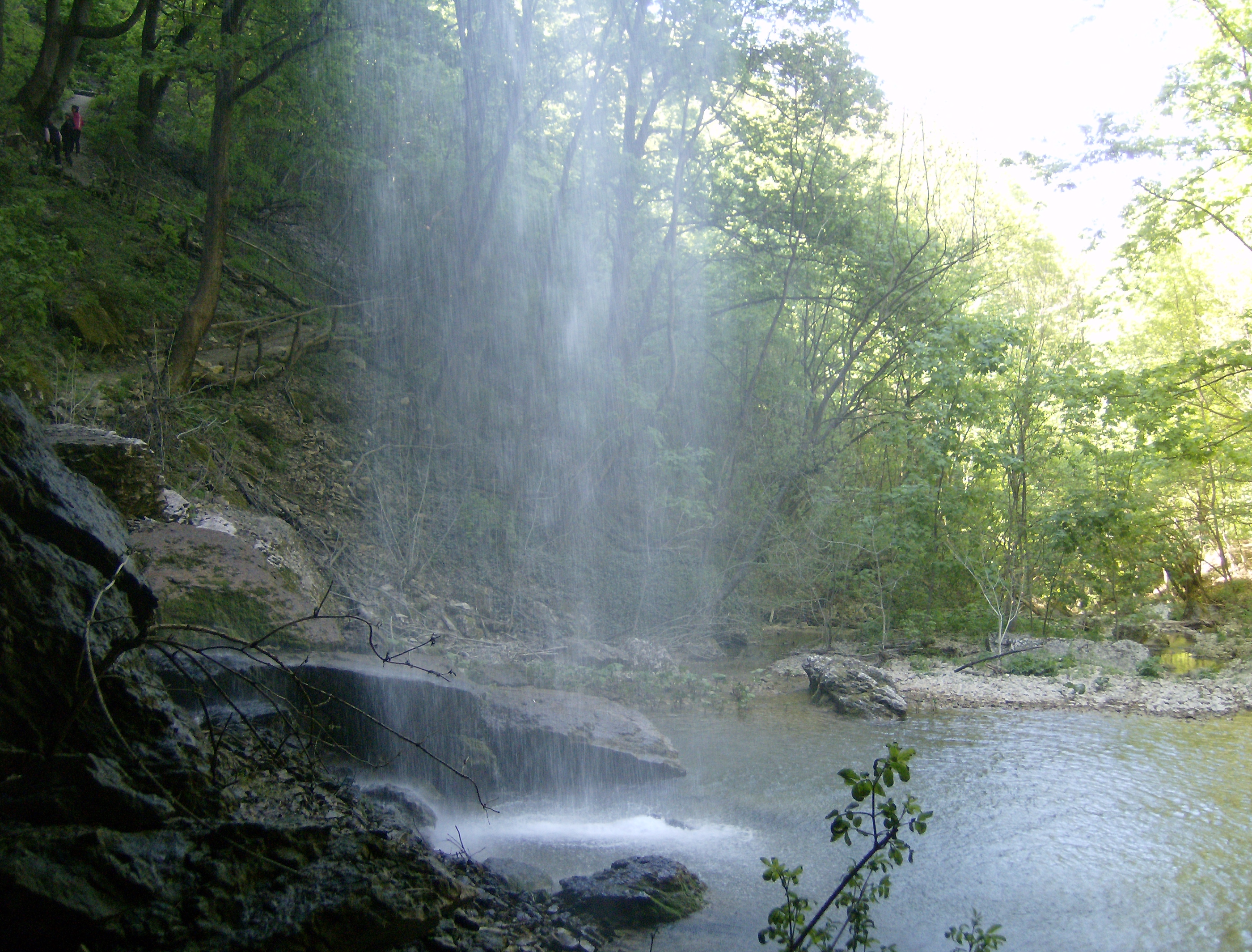 Skoka Veselinovo